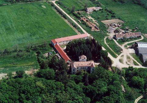 csehmindszent, Hungary, aerial photography